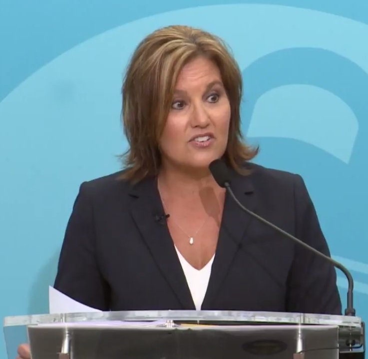 Mary Taylor announces her candidacy for governor at the City Club of Cleveland